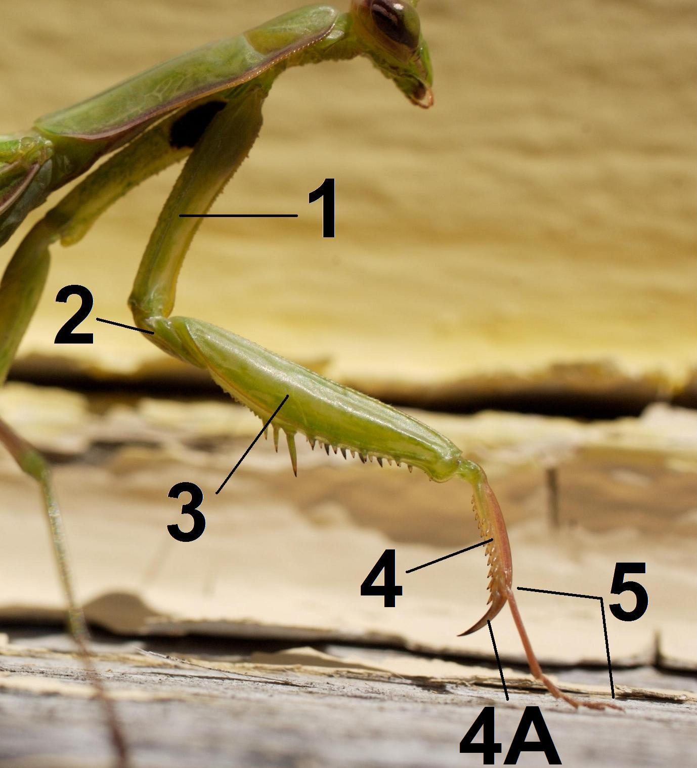 Praying Mantis on a fence